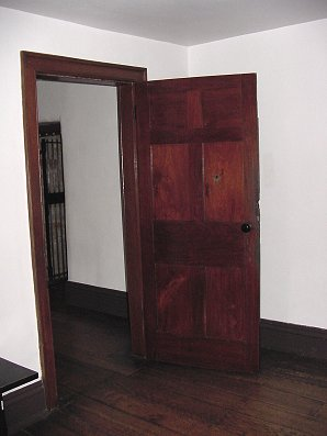 Image by George And Audrey DeLange, Release via e-mail: Hi, Bill, How fun! George and I would be delighted to have you use our photos. I'm very familiar with Wikipedia. Best Regards, Audrey